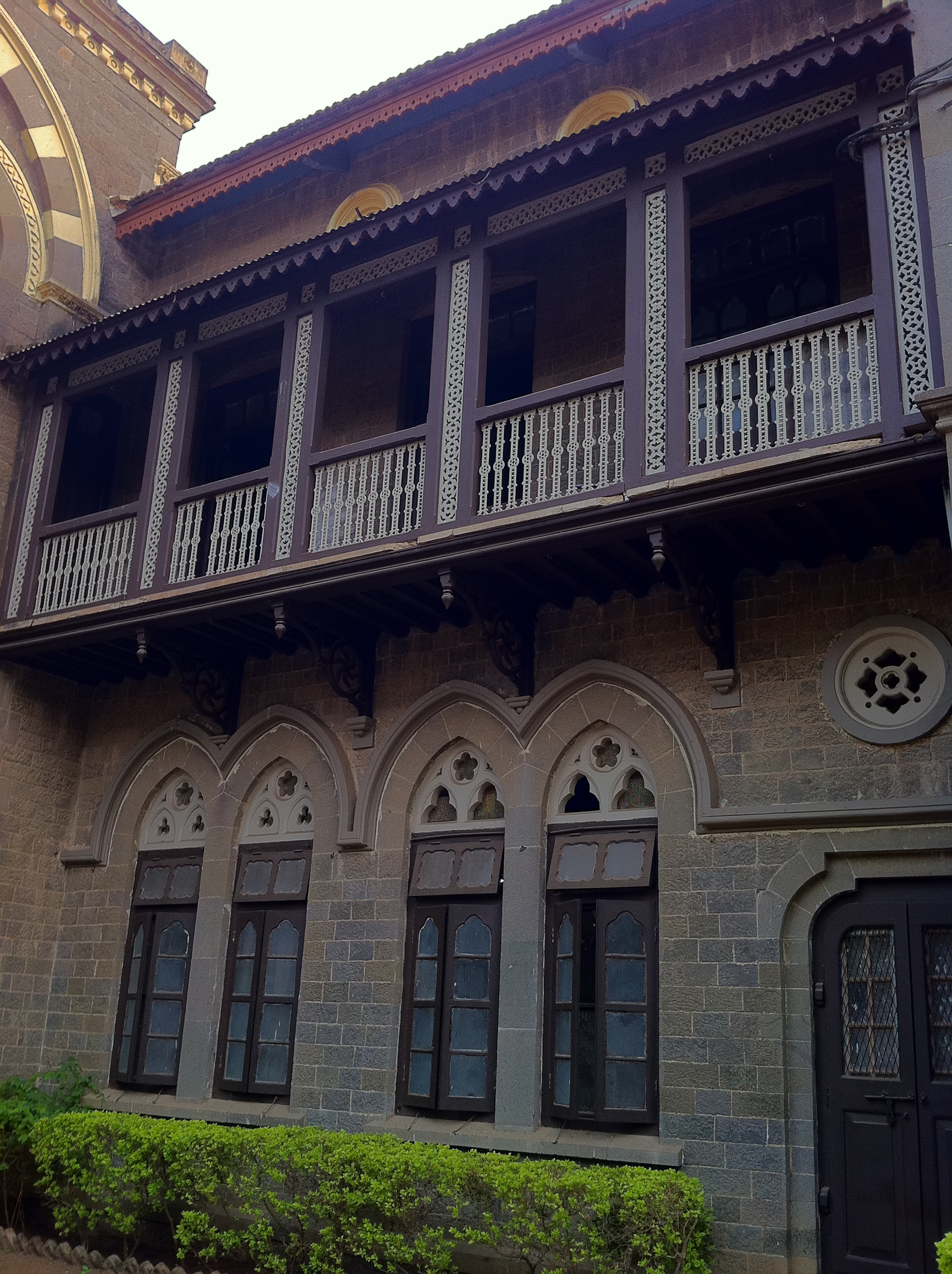 Fergusson College Main 11